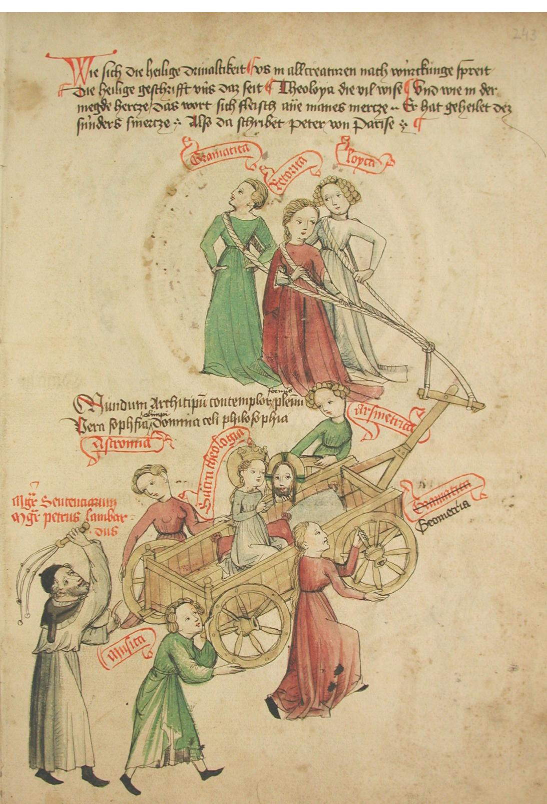 The seven Artes Liberales move a chariot with the Sacra Theologia (holding the head of the Christ), forced by Magister Sentenciarum Magister Petrus Lombardus (author of the "Sententia" in 12th century)